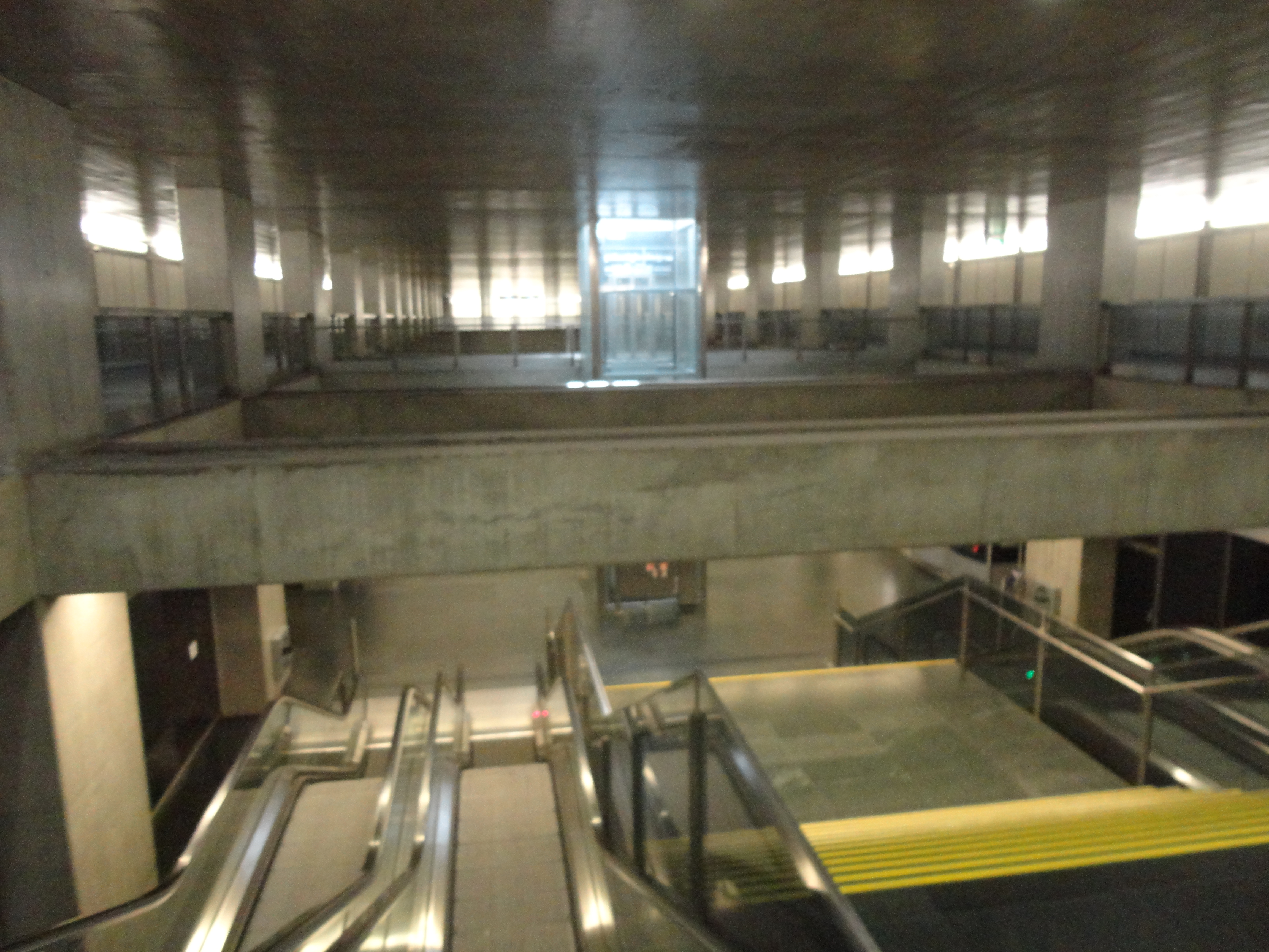 Staircases in the metro station Terreiro do Paço (Lisbon).